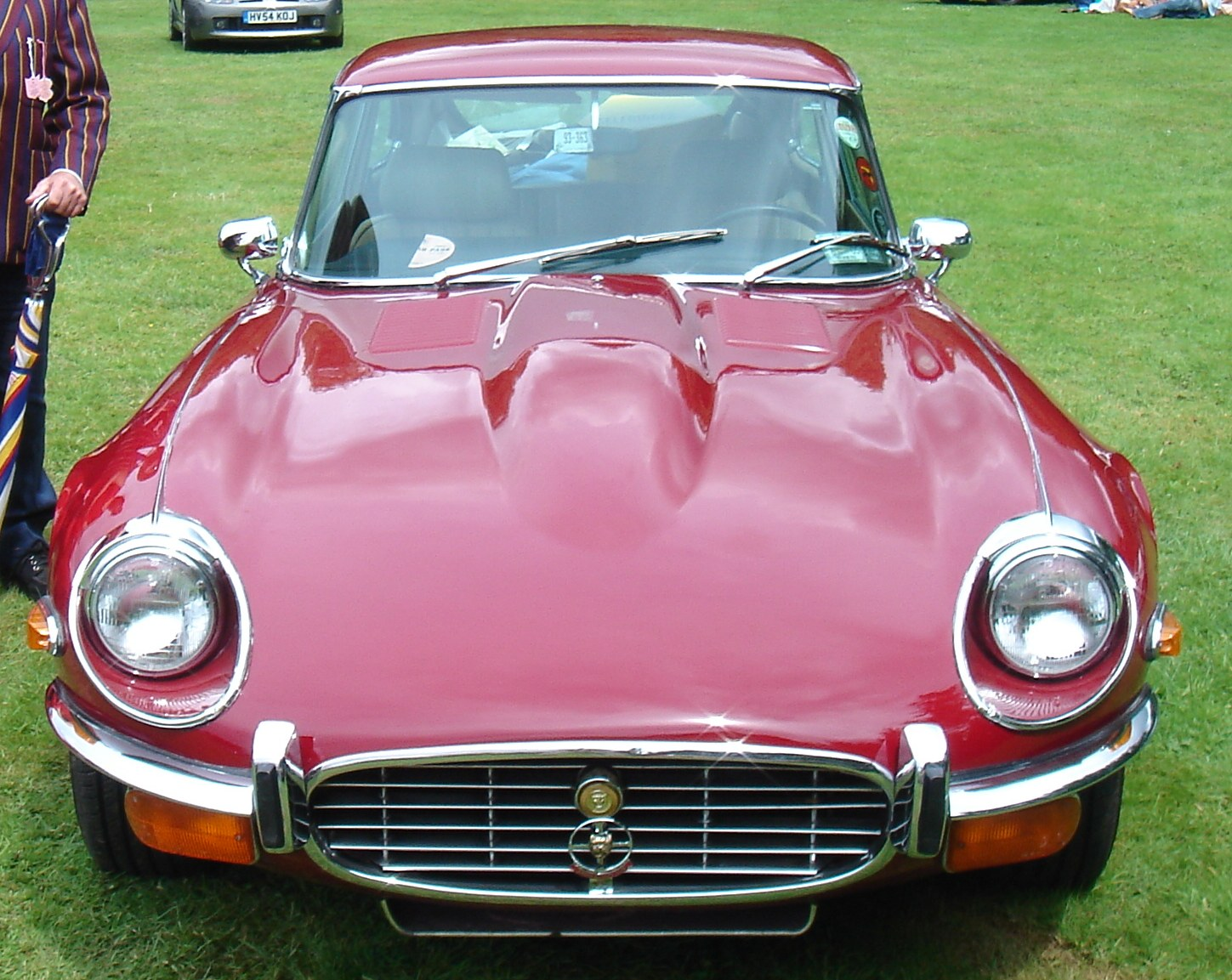 1972 Jaguar E-Type Series 3 2+2